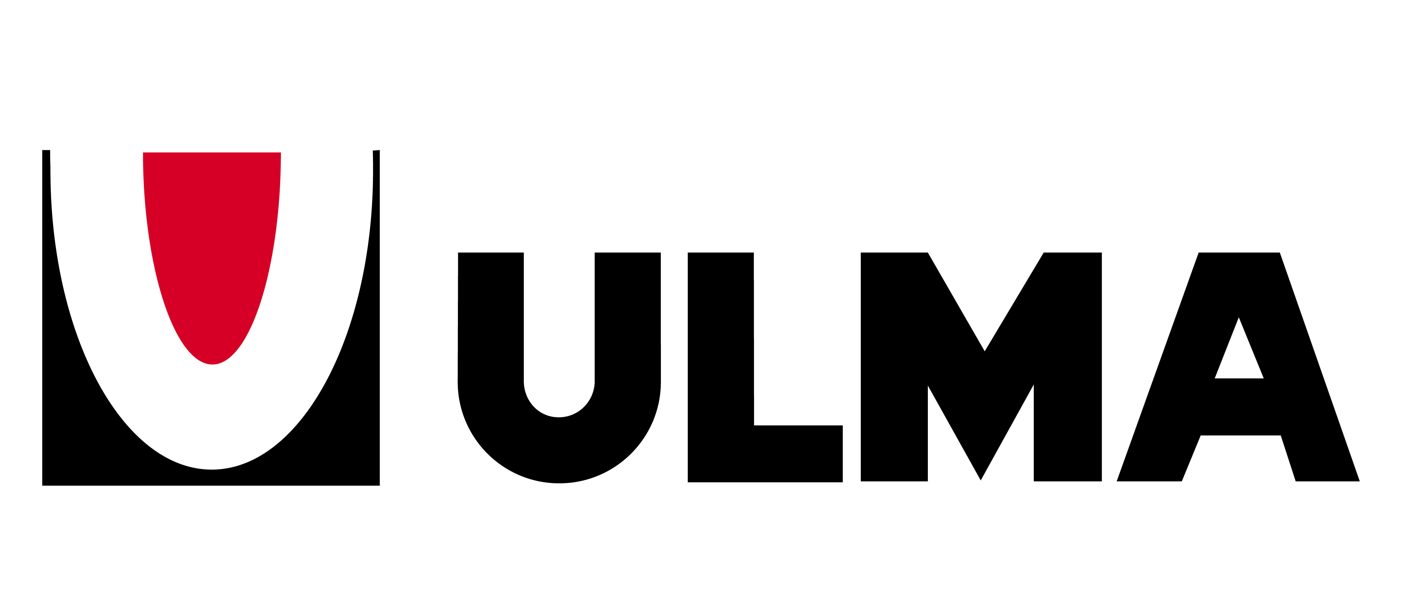 ULMA Group logo